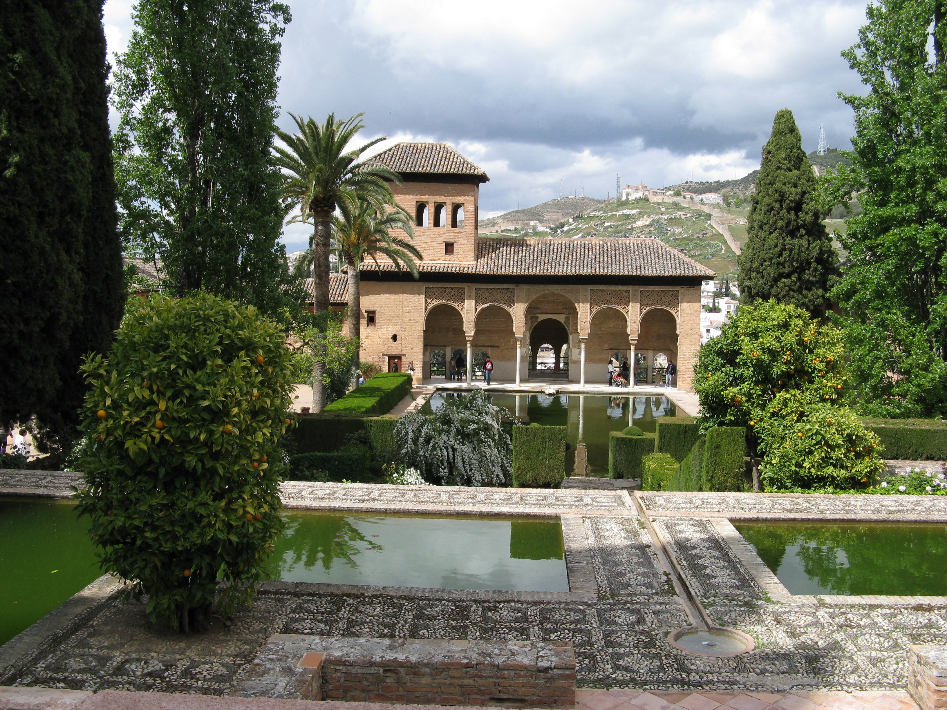 Partal Garden, Alhambra.